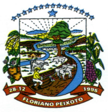 Coat of arms of the city of Floriano Peixoto, Rio Grande do Sul, Brazil.